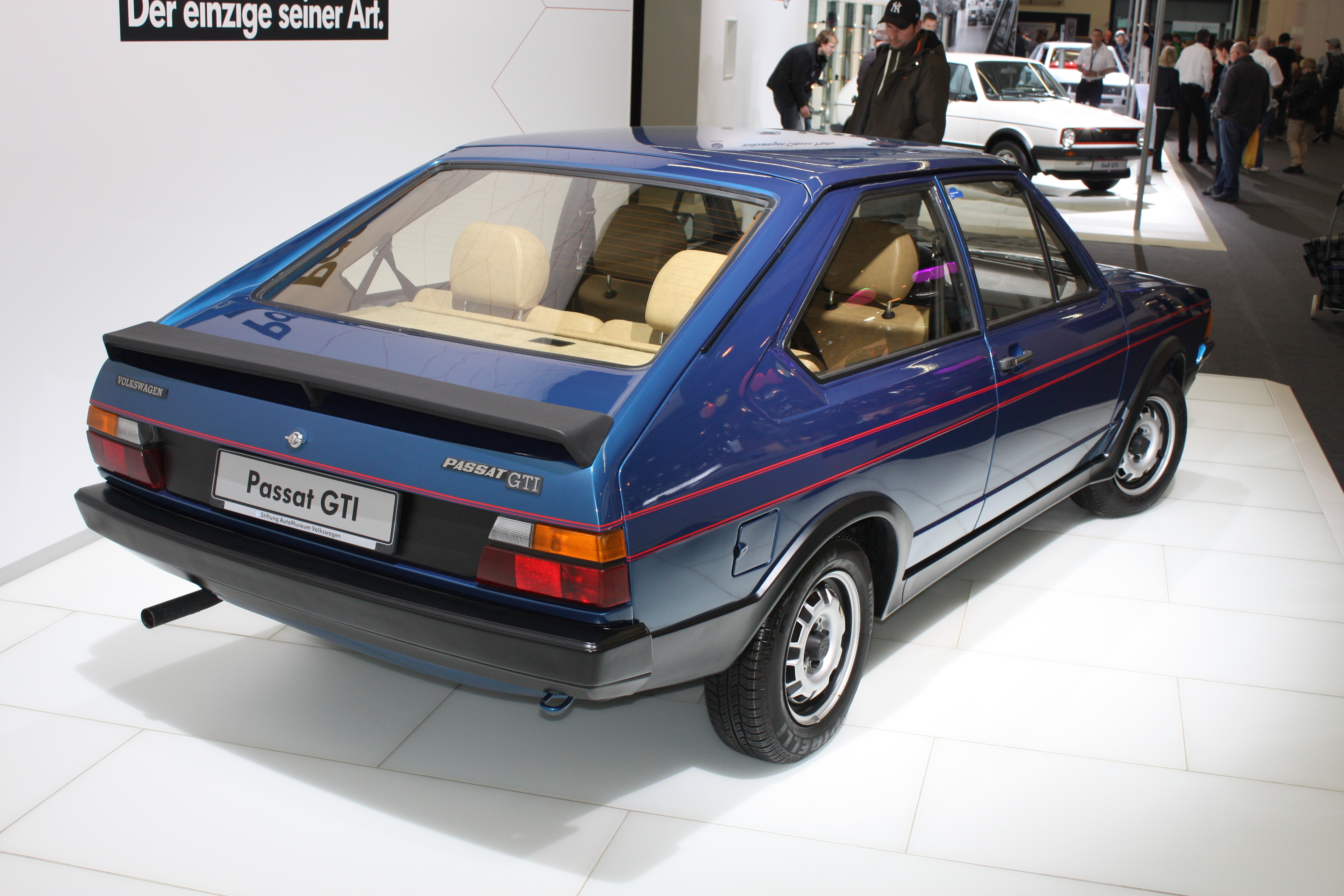 VW Passat (B1) GTI prototype, only one made, seen at Techno Classica, Essen, Germany